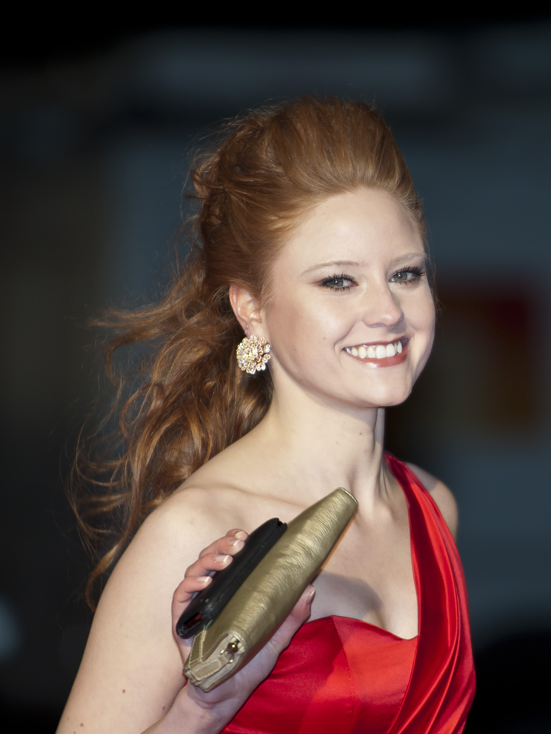 German fashion model Barbara Meier at the Cinema for Peace gala.